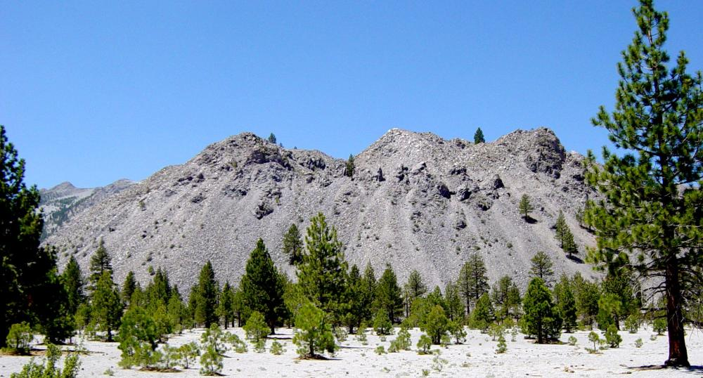 Mono Crater, California, USA. Image taken in June 2004 by Daniel Mayer.